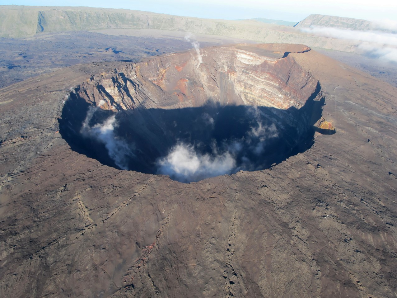 Piton de la Fournaise, Volcanic Cone with Crater Dolomieu (in Front) Crater Bory (behind), Border of inner Caldera "Enclose Fouqué" and Border of exterior Caldera "Rempart"